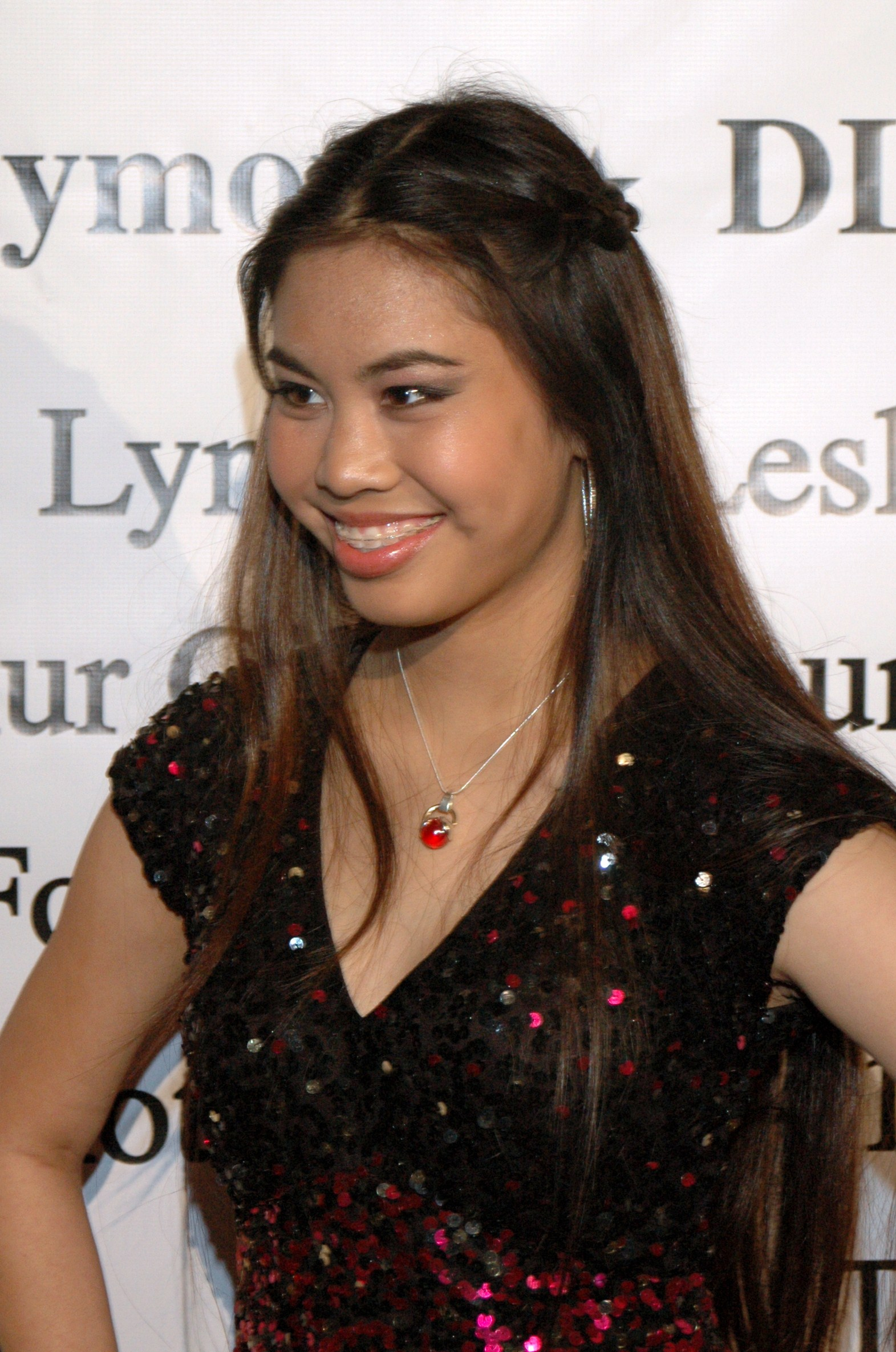 Ashley Argota on the Children Uniting Nations Academy Award Viewing Party red carpet, at the Beverly Hilton, Beverly Hills, Los Angeles, California. Held preceding the start of the Oscar telecast.